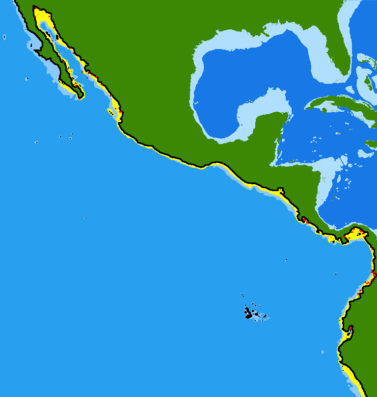 Carcharhinus cerdale range